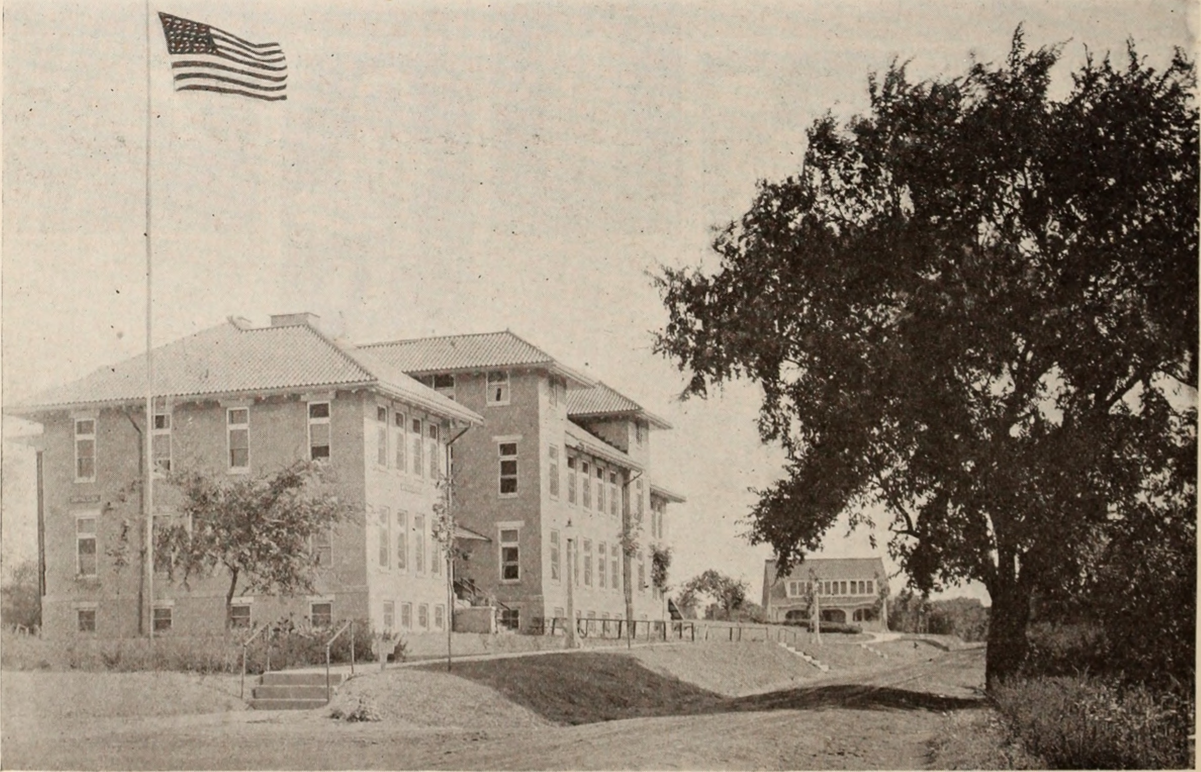 Loyalty Hall, boys dormitories at Mooseheart, the home and school for children of deceased members of the Loyal Order of Moose, Mooseheart, Ill. Title: Baltimore and Ohio employees magazine Year: 1920 (1920s) Authors: Baltimore and Ohio Railroad Company Baltimore and Ohio Railroad Company Subjects: Railroads -- Employees -- Periodicals Railroads -- United States -- Employees Publisher: (Baltimore, Baltimore and Ohio Railroad) Text Appearing Before Image: you. I have broth-ers also, but I have not seen thernsince boyhood. I have not the slight-est idea where they are or what theirnames are. They are strangers to me. The sight of these orphan children,forced into the world to work at atender age and unequipped to com-pete with the educated, so impressedme that I determined that if the timeand opportunity ever permitted, Iwovild interest public-spirited peoplein the founding of some communityplanned to take care of just suchcases as these helpless orphans. Nowthat enterprise, established in amodest way some years ago, hasgrown to a usefulness that gives usone of the great satisfactions of life.Here we welcome the children ofMoose members who have died with-out the means to provide an educa-tion for their children. Year by yearthis enterprise grows in equipmentand resources. Yearly the number oforphans coming to us increases. Weare planning to establish in the nea-ifuture, similar enterprises in variousparts of the country. And I believe Text Appearing After Image: Loyalty Hall, boys dormitories at Mooseheart, the home and school for children of deceased members of the Loyal Order of Moose, Mooseheart, III. Baltimore and Ohio Magazine, January, iq22 13